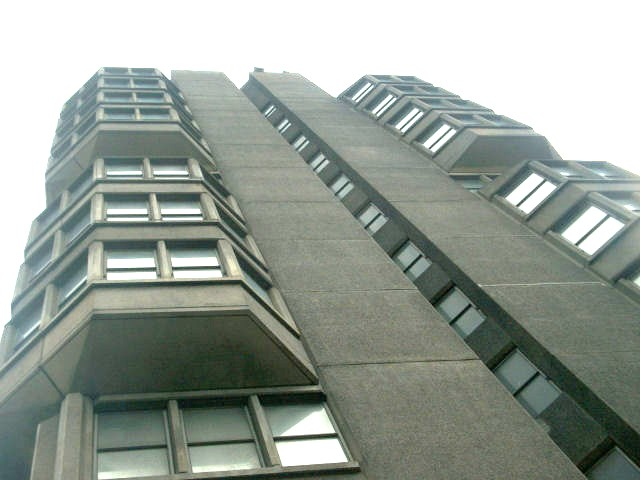 Looking up at the side of Buckinghamshire County Hall, Aylesbury. Taken 18th October 2005.